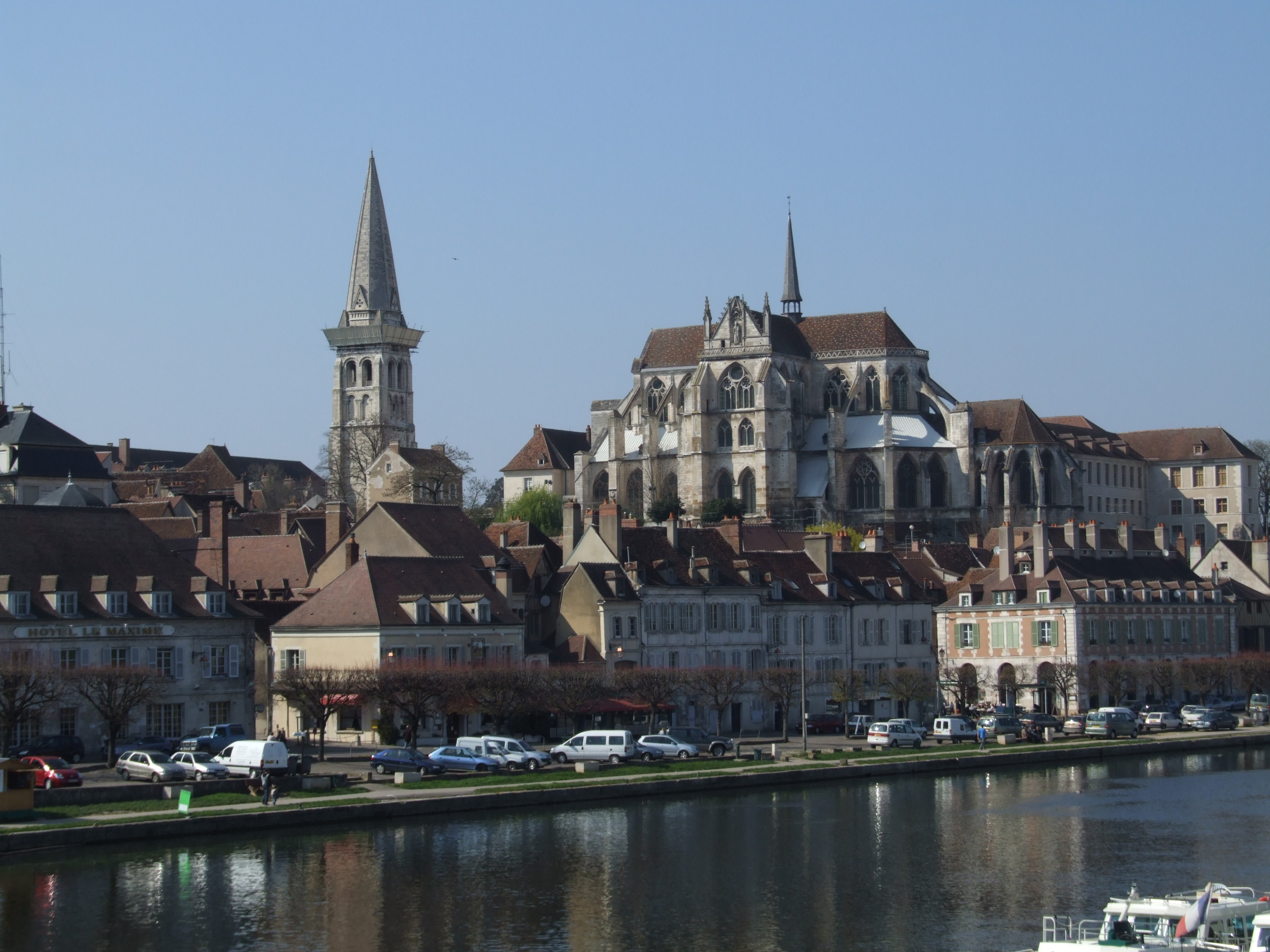 Saint-Germain abbey, Auxerre, Burgundy, FRANCE